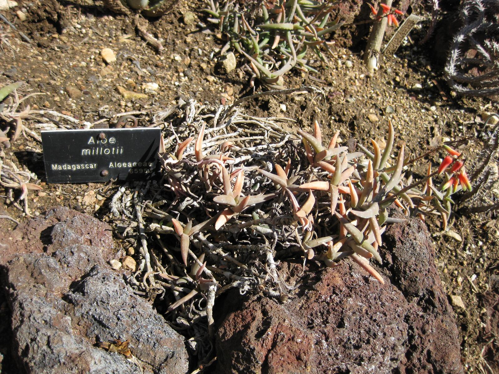 Photographed at Huntington Gardens (Los Angeles, California) in March